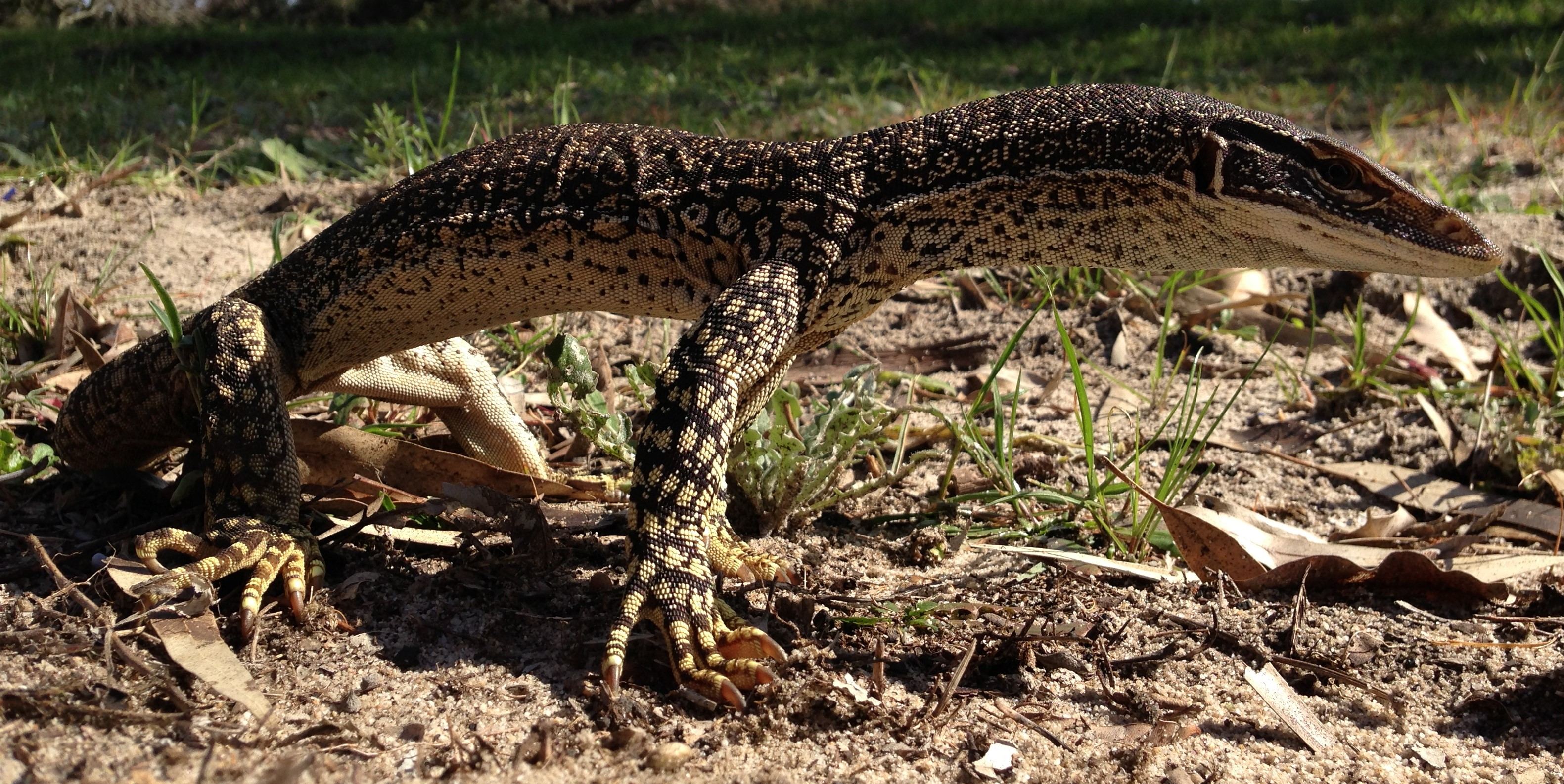 A 'race horse' goanna, photographed on the north side of Rowley Road between the brook and Eleventh Road, Wungong, Western Australia.